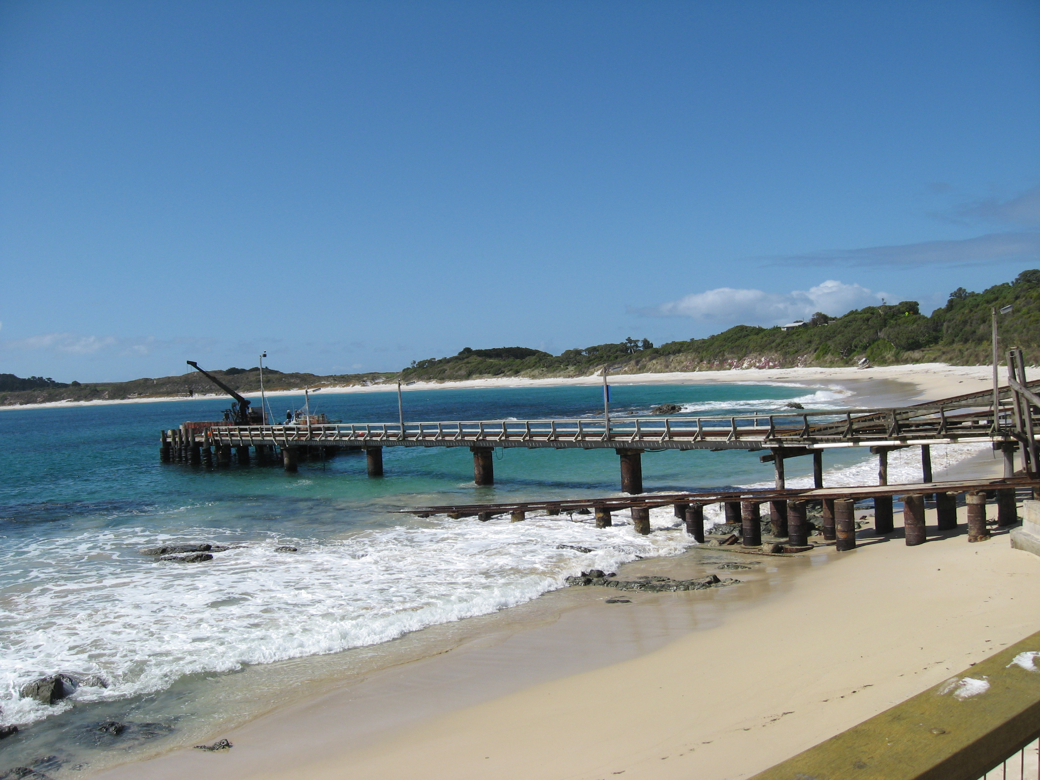 The beach of Kaingaroa, Kaingaroa Harbour, Catham Island (main island), Catham Islands, New Zealand.